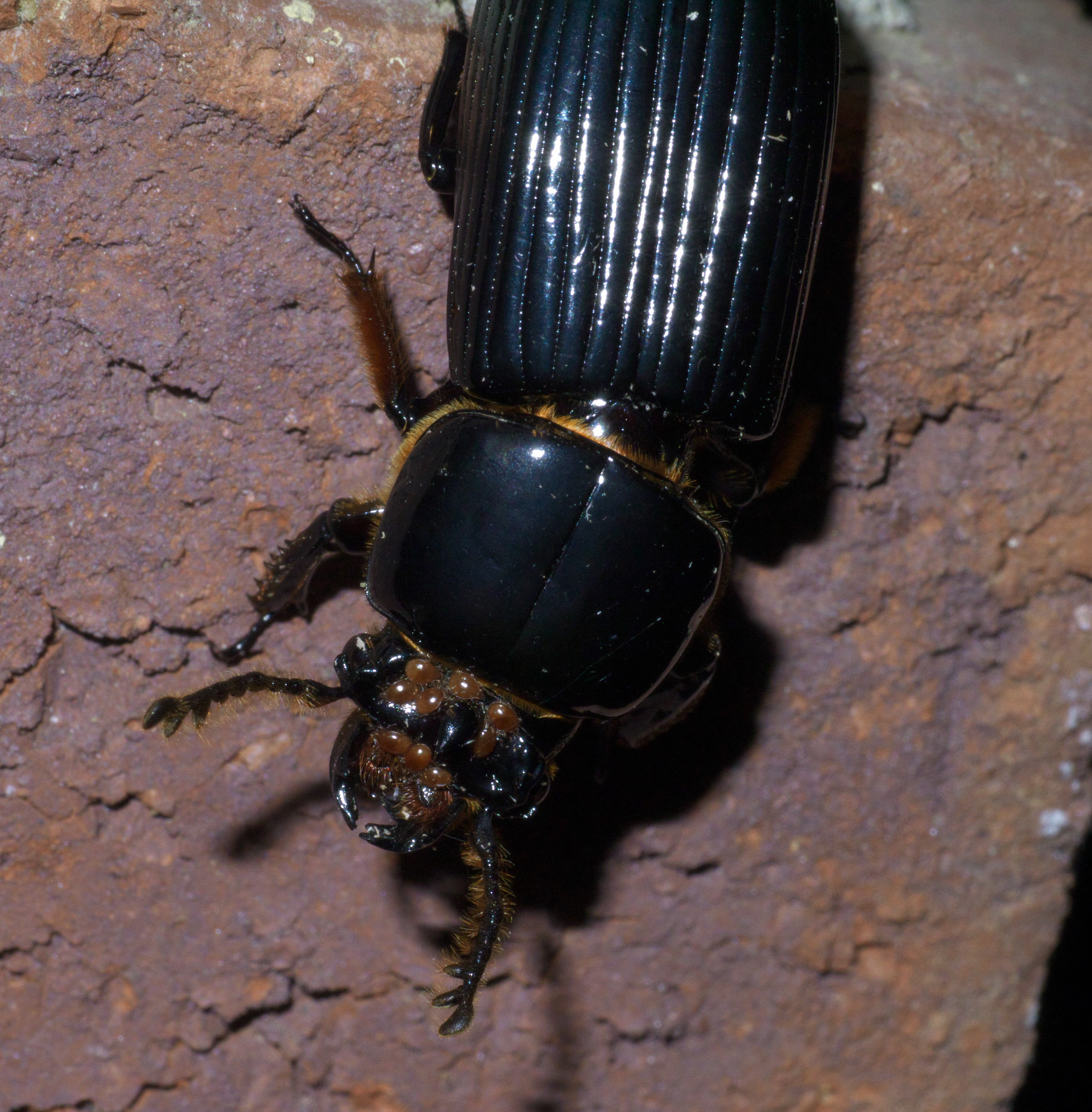 Odontotaenius disjunctus, horned passalus, ID Confidence: 87